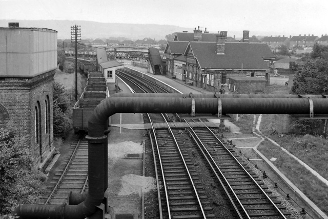 Bat & Ball (Sevenoaks) Station. View NE, towards Otford; Victoria/Blackfriars - Bromley South - Swanley - Oxford - Sevenoaks (Tubs Hill) line.